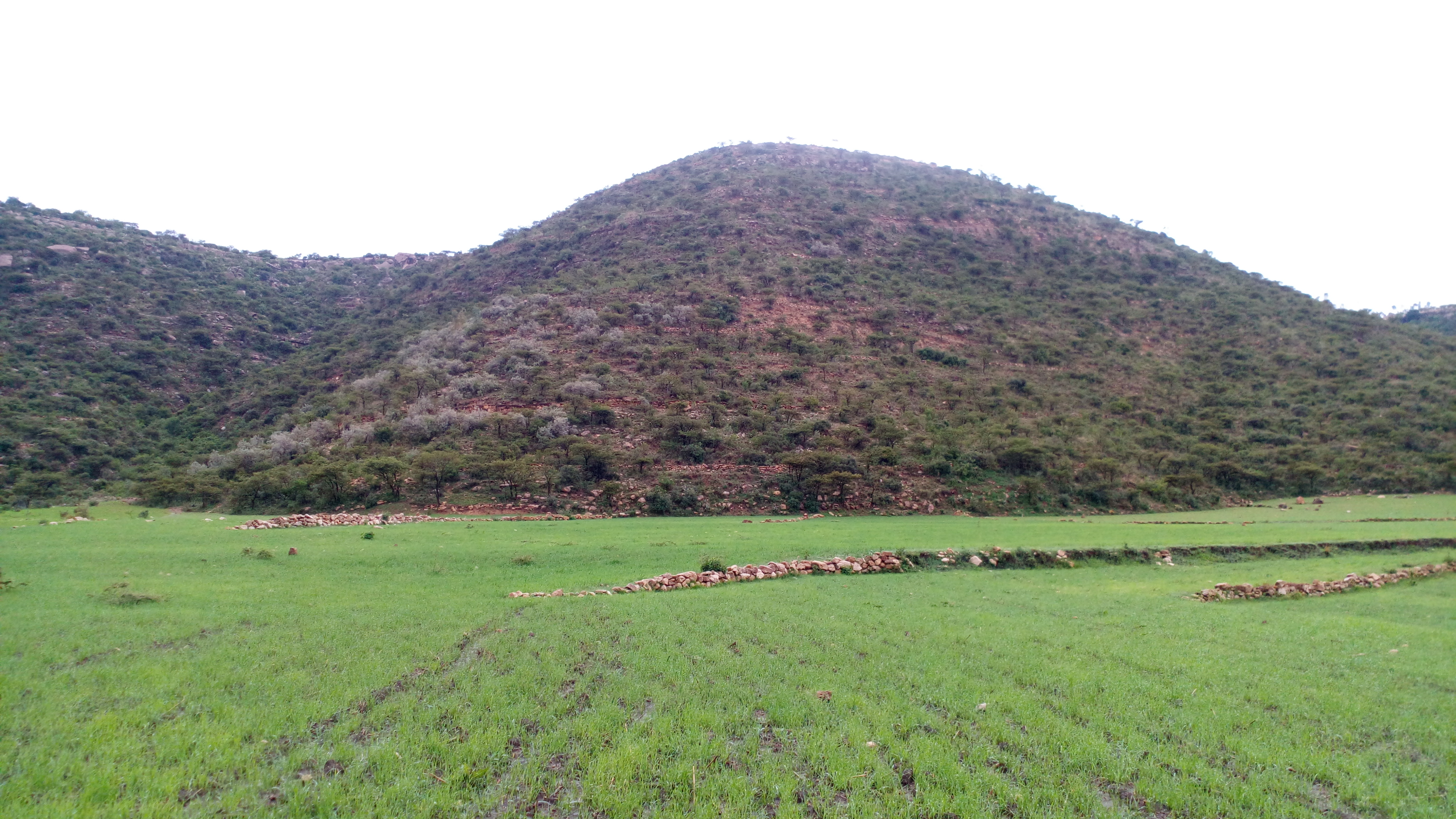 Gemgema 2